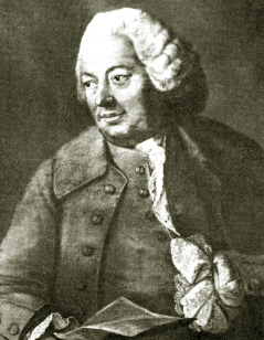 Portrait of Thomas Tyrrell (1700-1781)